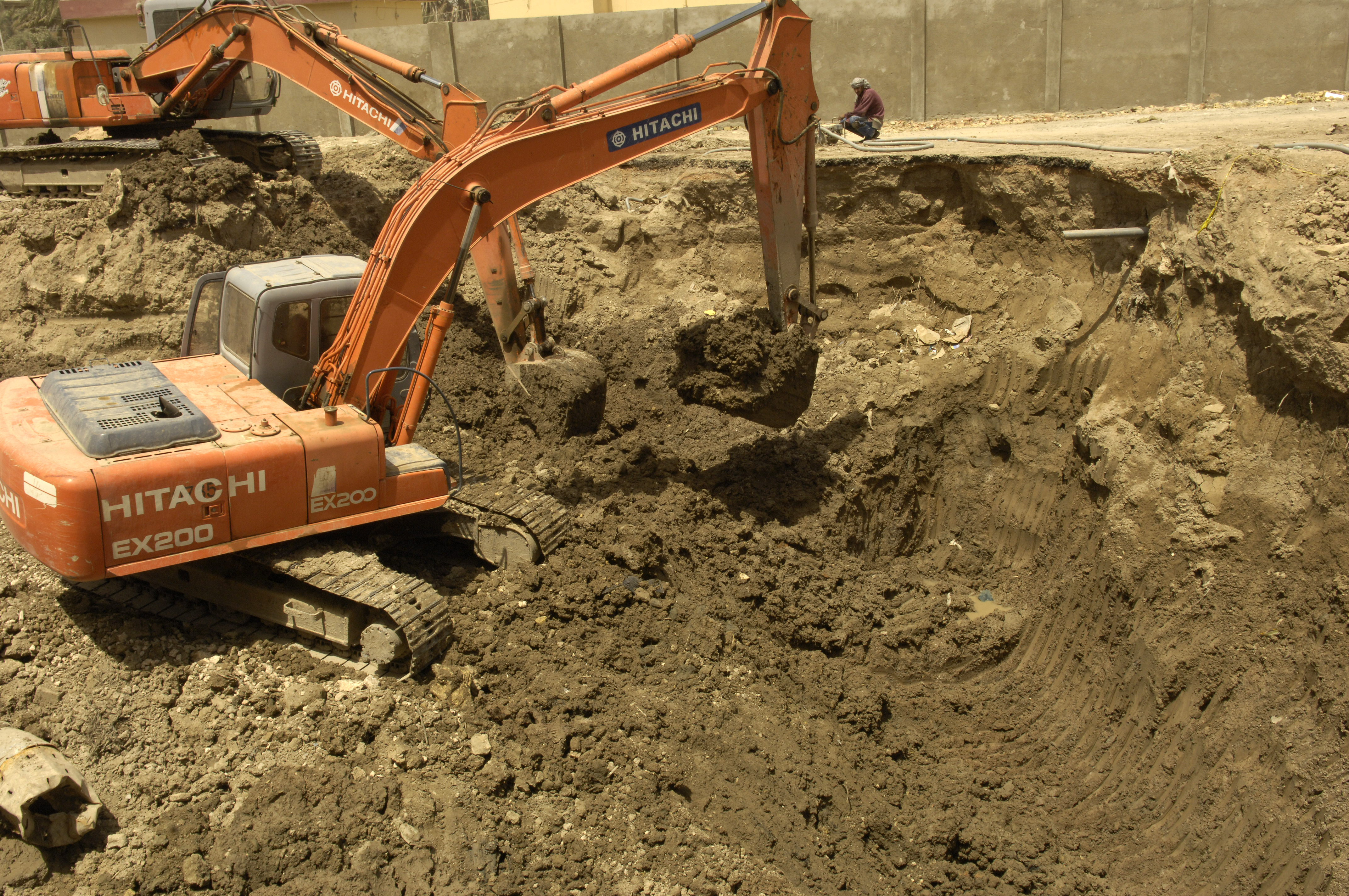 Iraqi workers restore a sewage plant while a Polish civilian military cooperation team conducts an inspection of a sewage clean up act being conducted in the local province of Ad Diwaniyah, Iraq, May 20, 2008.